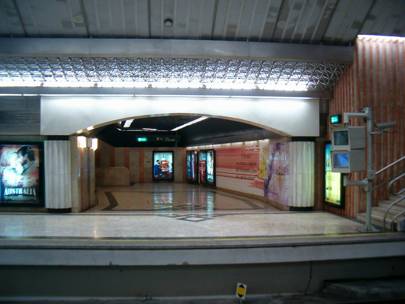 Olivais metro station of the Red Line (Linha Vermelha) of Lisbon's metro system; Lisbon, Portugal